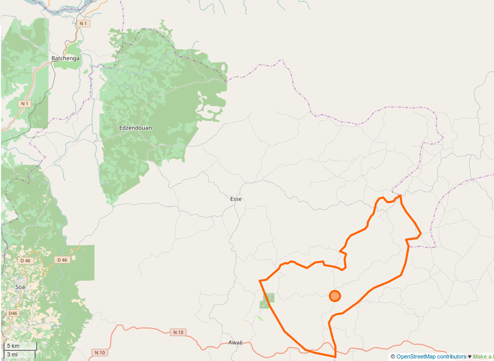 Olanguina in Cameroon ː city boundaries with OSM. This map may be incomplete, and may contain errors. Don't rely solely on it for navigation.